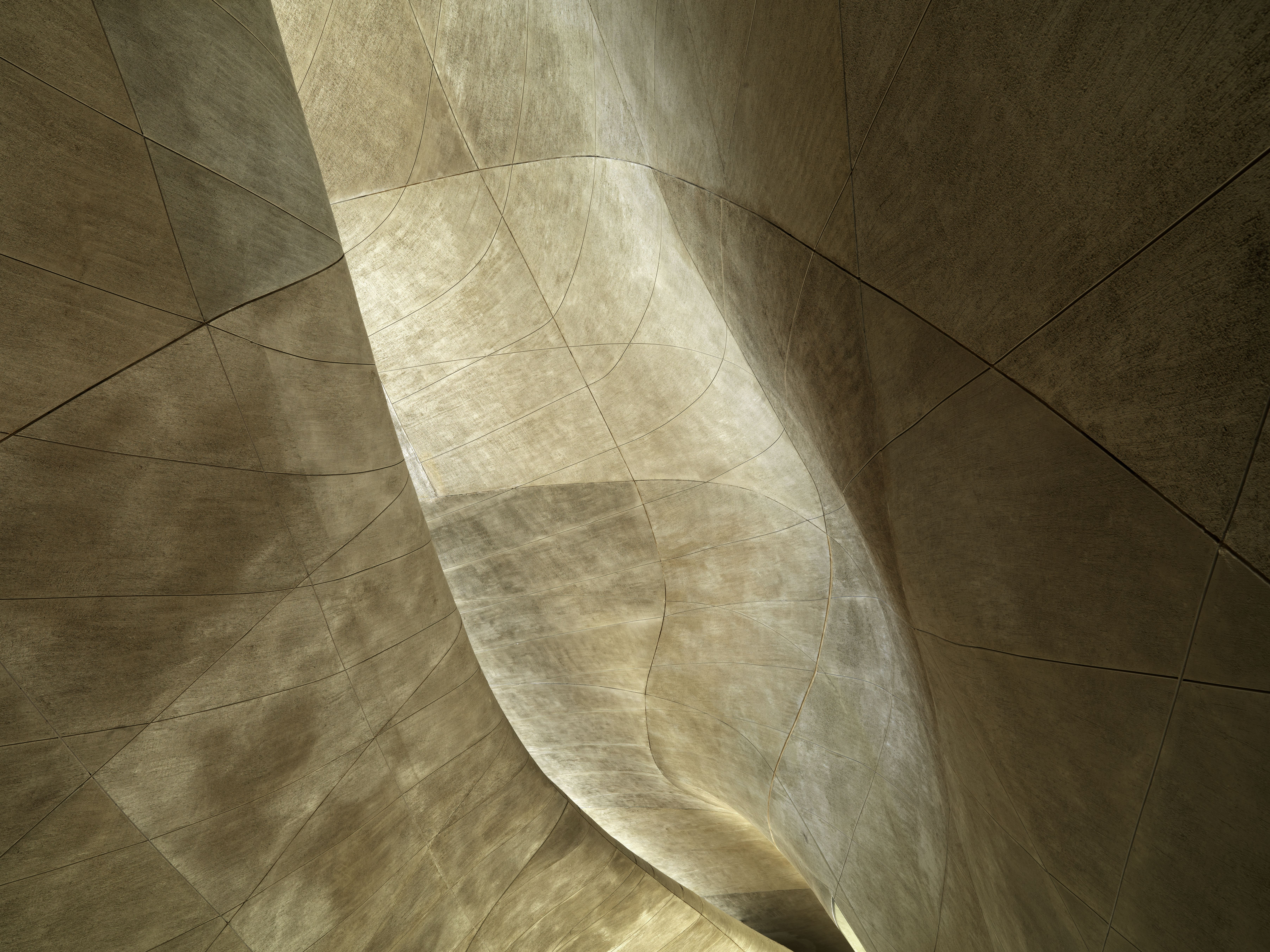 Interior of the Museum of the History of Polish Jews in Warsaw